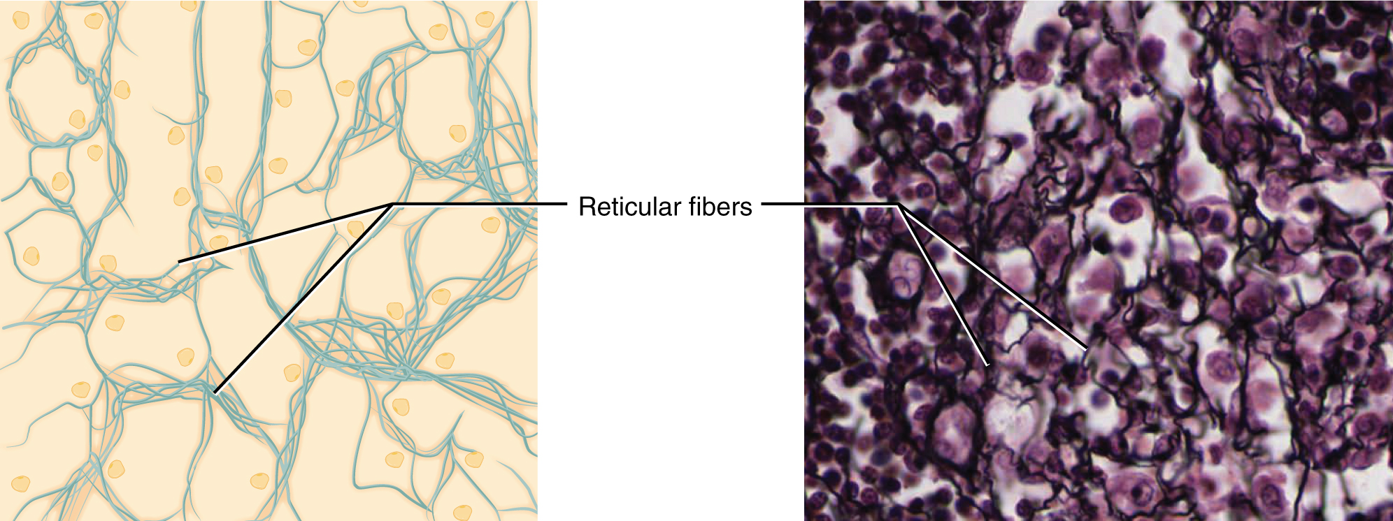 Illustration from Anatomy & Physiology, Connexions Web site. Jun 19, 2013.